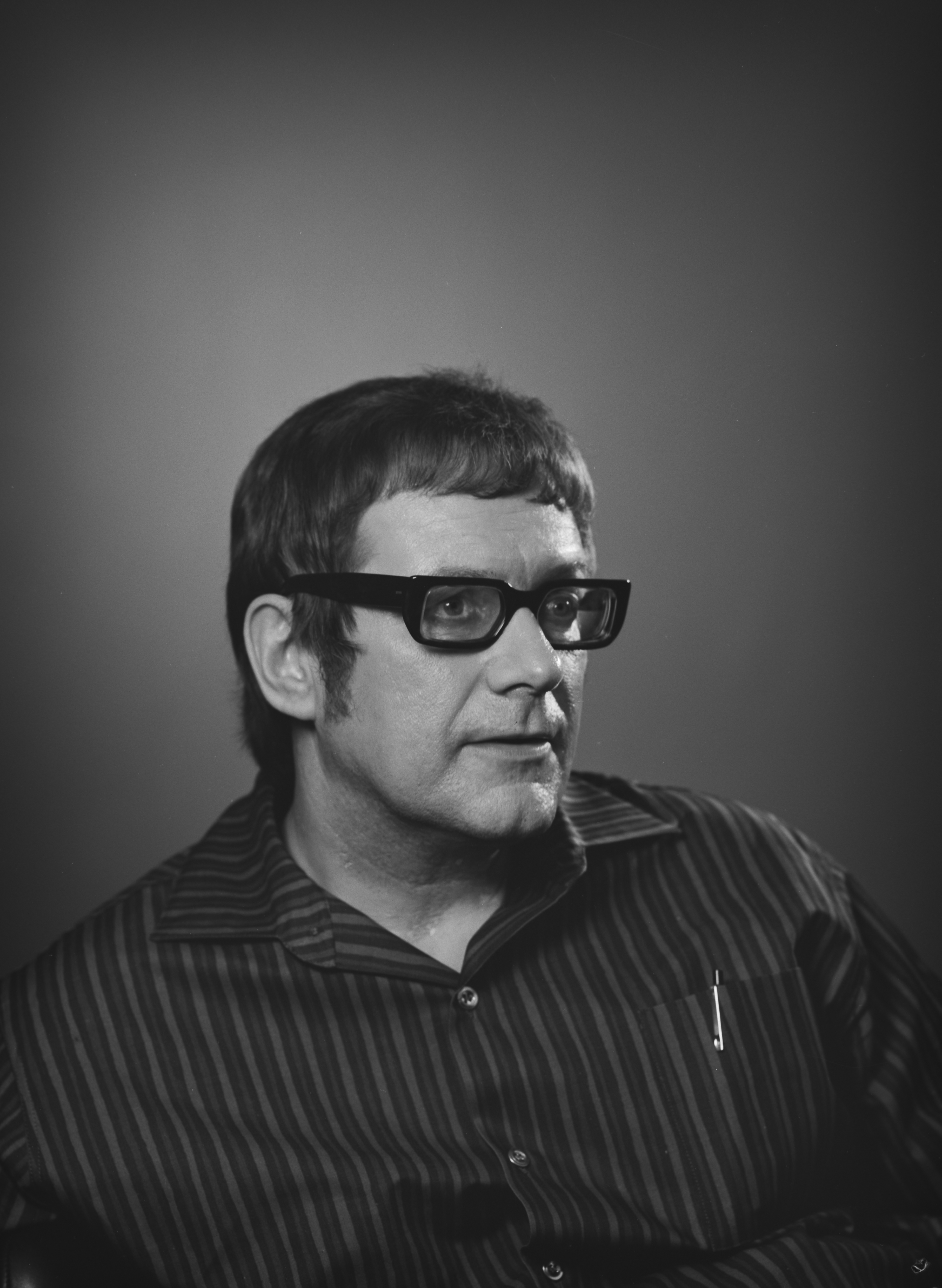 Photograph of the Finnish politician and priest Jouni Apajalahti (1920–2009).